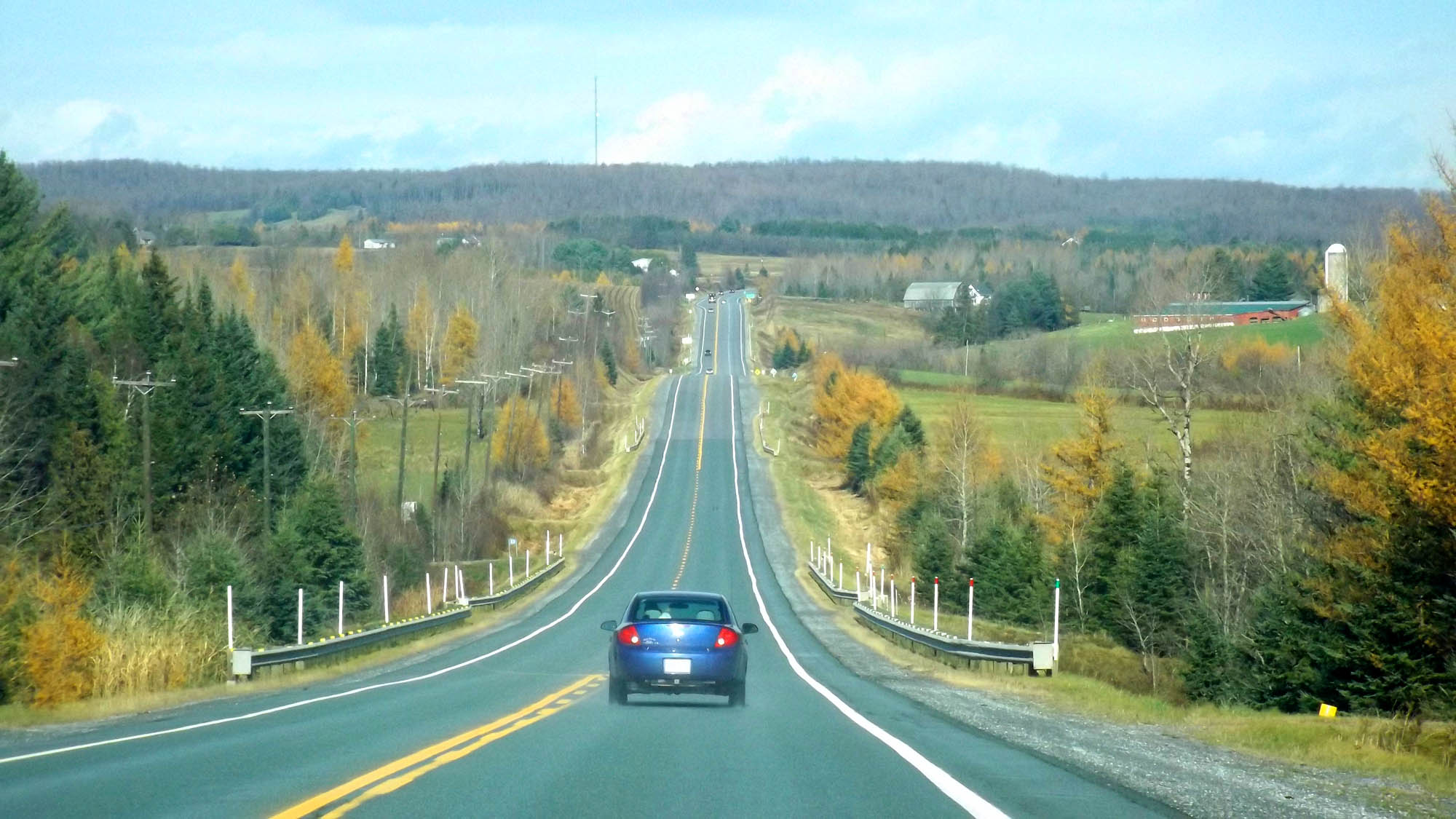 On the road